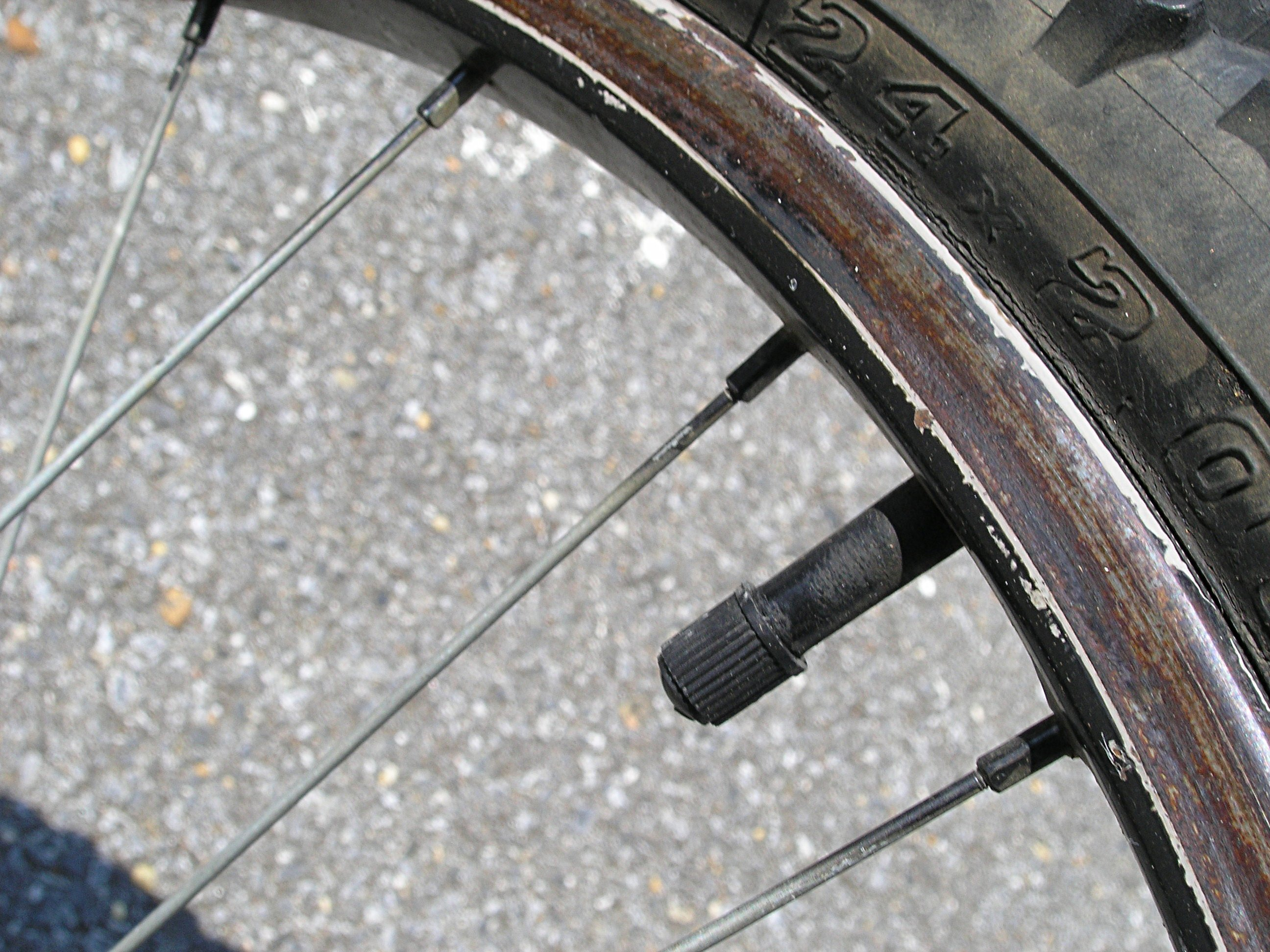 A Schrader valve (with cap) on a bicycle tire.